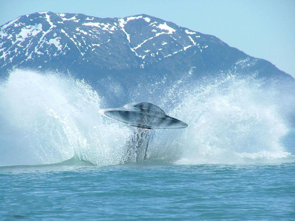 A typical shape of a unidentified flying object commonly known as a flying saucer, exiting from a water surface.